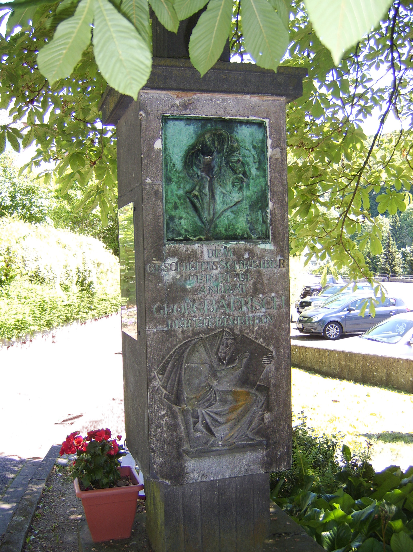 Bärsch-Memorial, Prüm, Rhineland-Palatinate, Germany